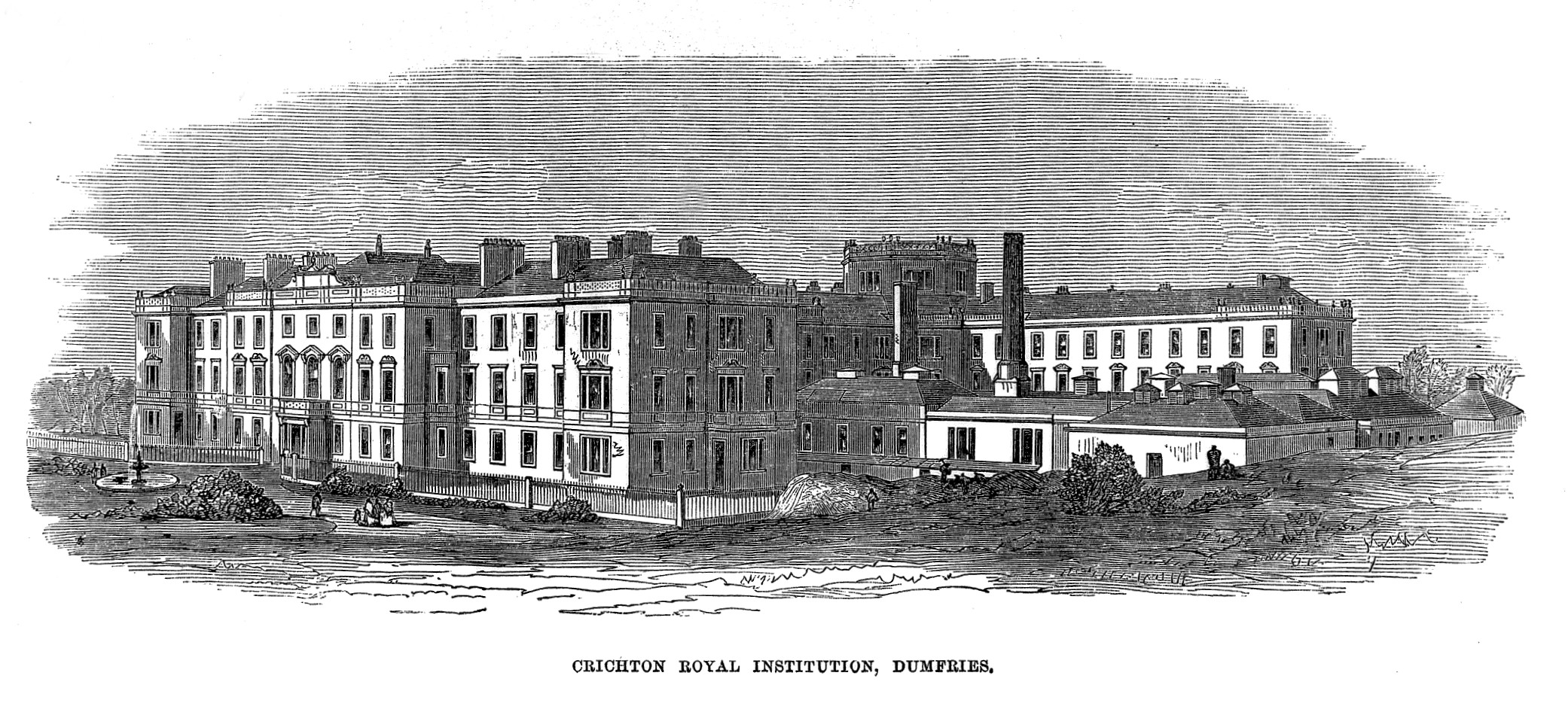 The Crichton Royal Institution, Dumfries, Scotland. Wood engraving. Iconographic Collections